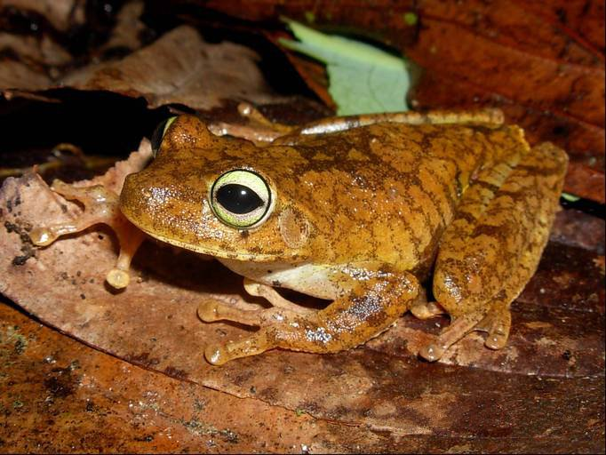 Hypsiboas crepitans